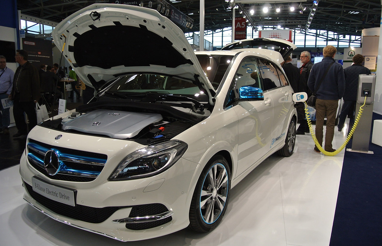 eCarTec Munich 2013: Mercedes-Benz B-class Electric Drive